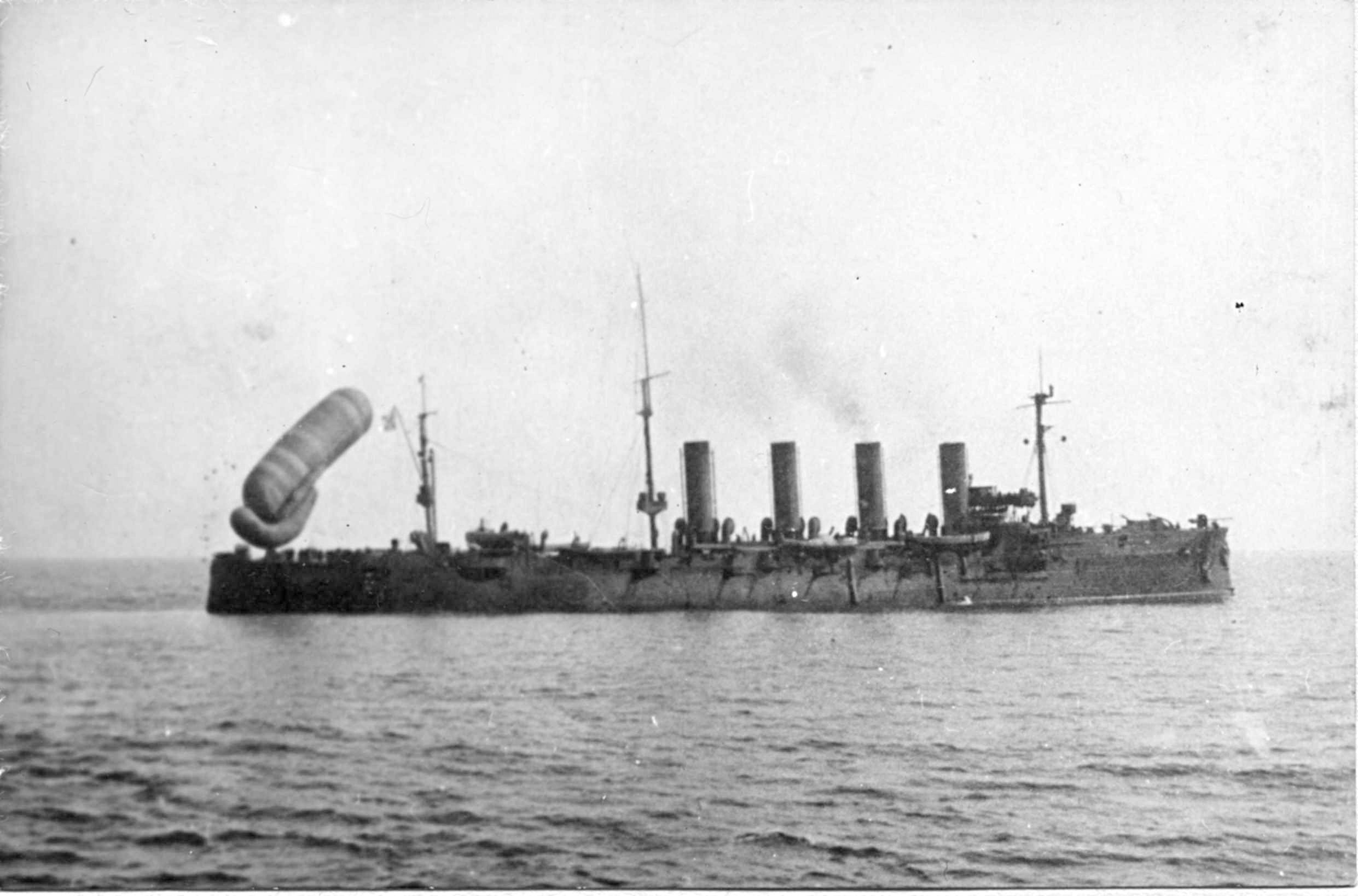 Imperial Russian cruiser Rossiya with military observation balloon.